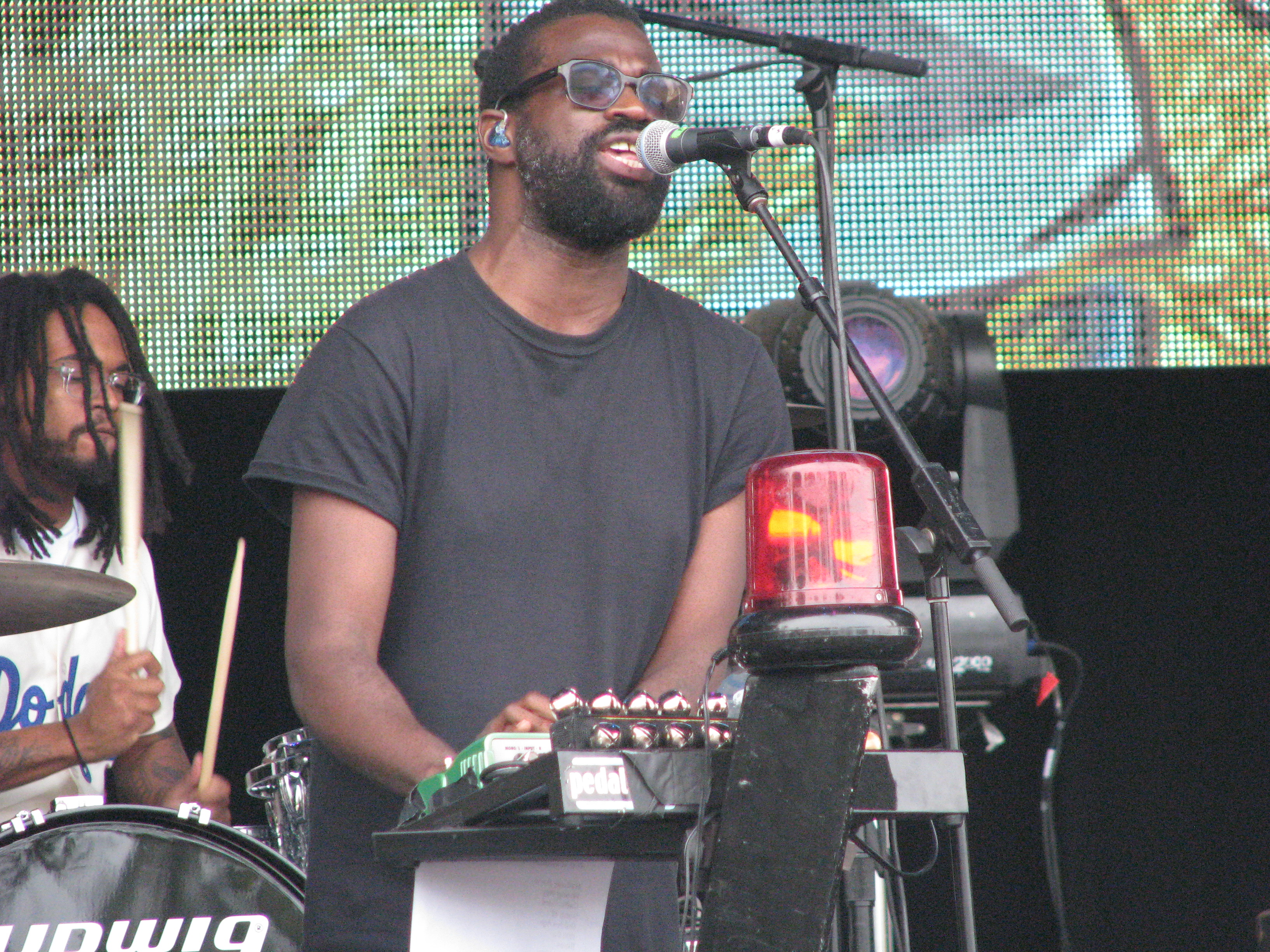 Tunde Adebimpe of TV On The Radio performing at Harvest Festival 2011 on November 13, 2011 in Sydney, Australia.